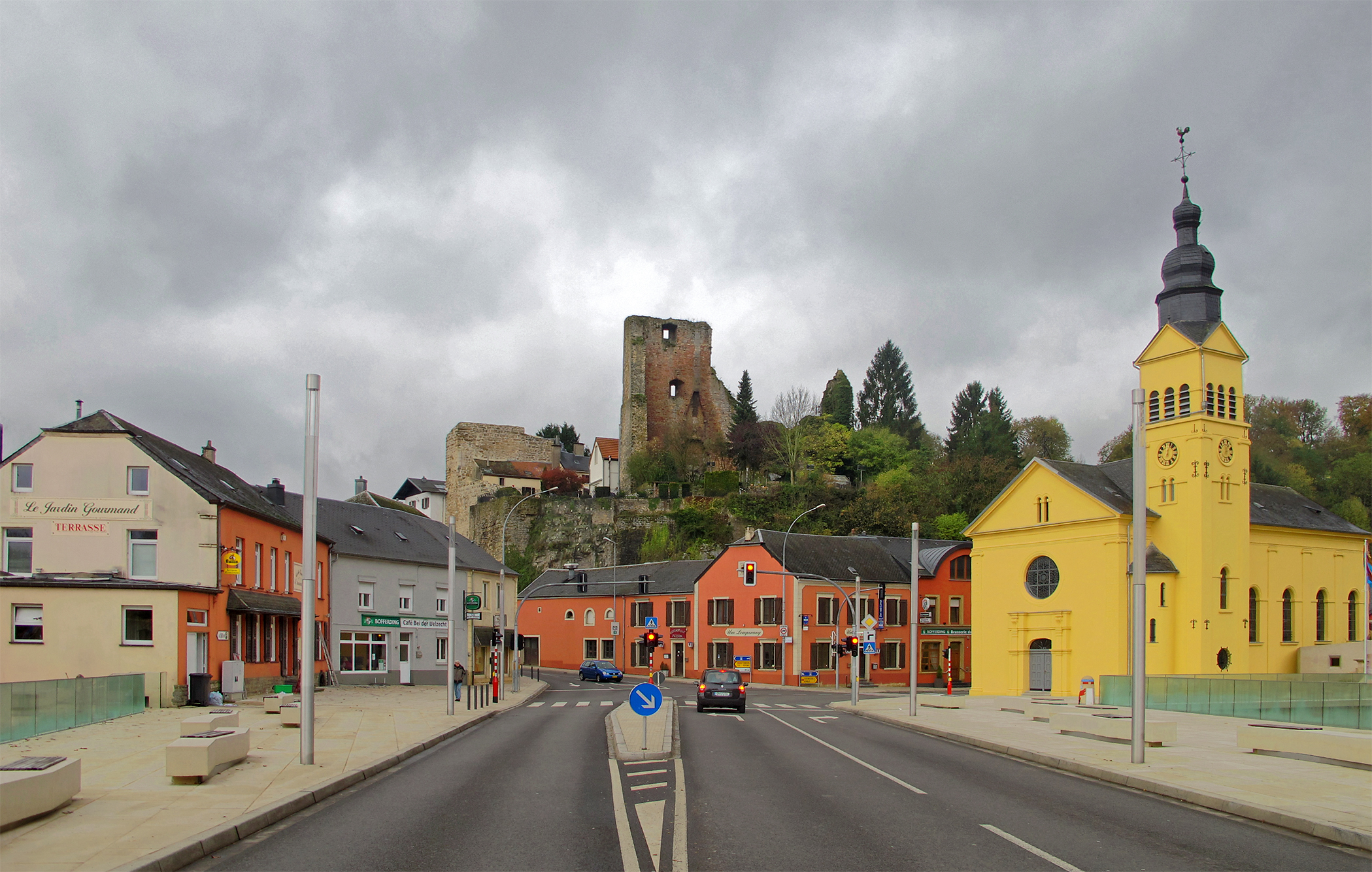 The center of Hesperange, Luxembourg with the castle and the church